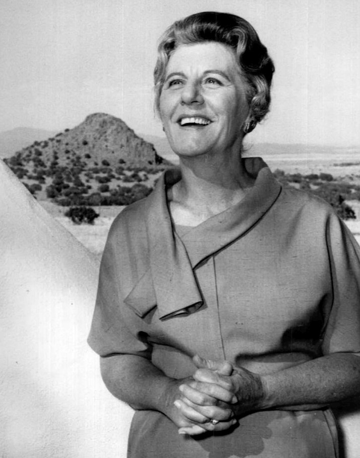 Photo of Anne Seymour as Lucia Garret from the television program Empire.